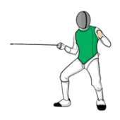 The Fencing Target in Green.